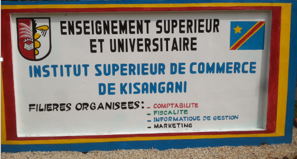 Différent filière organisé a l'ISC-KIS